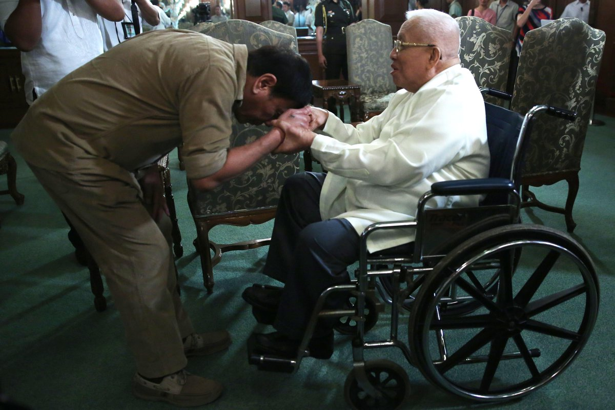 President Rodrigo R. Duterte shows respect to Ricardo Cardinal Vidal doing the traditional ‘pagmamano’ when the latter visited the President in Malacañan Palace on July 13, 2016. TOTO LOZANO/PPD